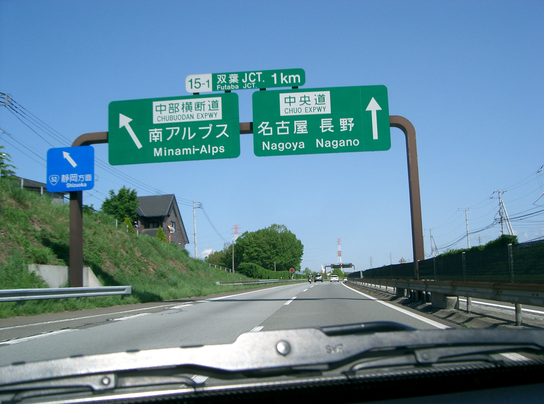 Futaba Junction on the Chuo Expressway outbound line (for Nagoya)